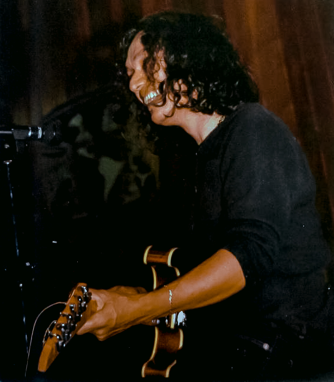 Mexican composer Arturo Meza. Pic taken at the Faculty of Philosophy and Letters, UNAM, Mexico City